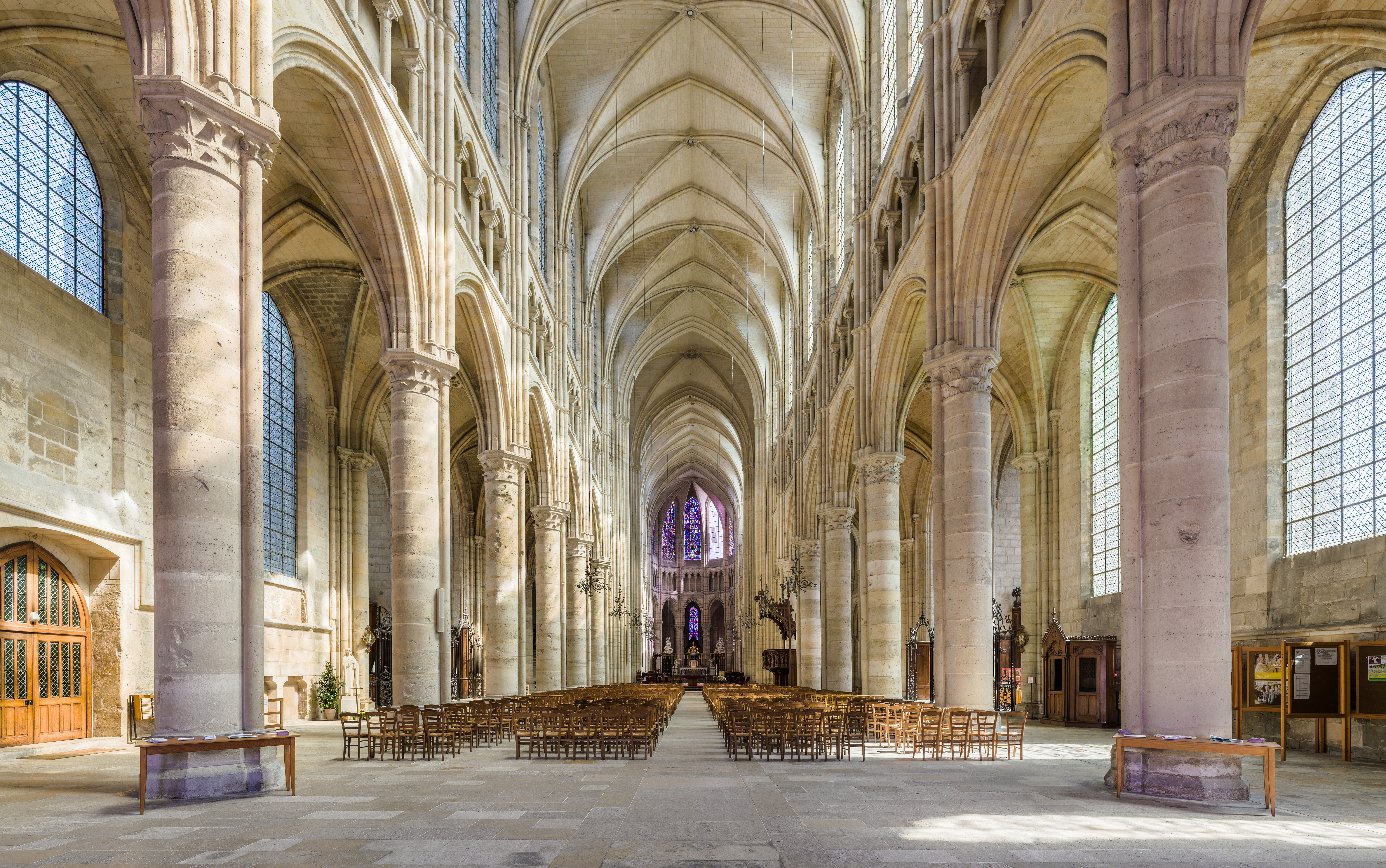 The nave of Soissons Cathedral, Picardy, France.